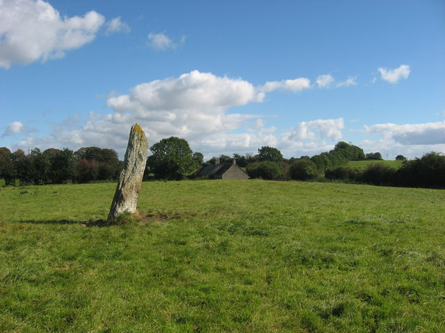 Standing stone at Rathiddy 'Cloch an Fhir Mhoir', the stone of the big man, stands 2.9m high and is associated with the death of Cú Chulainn.